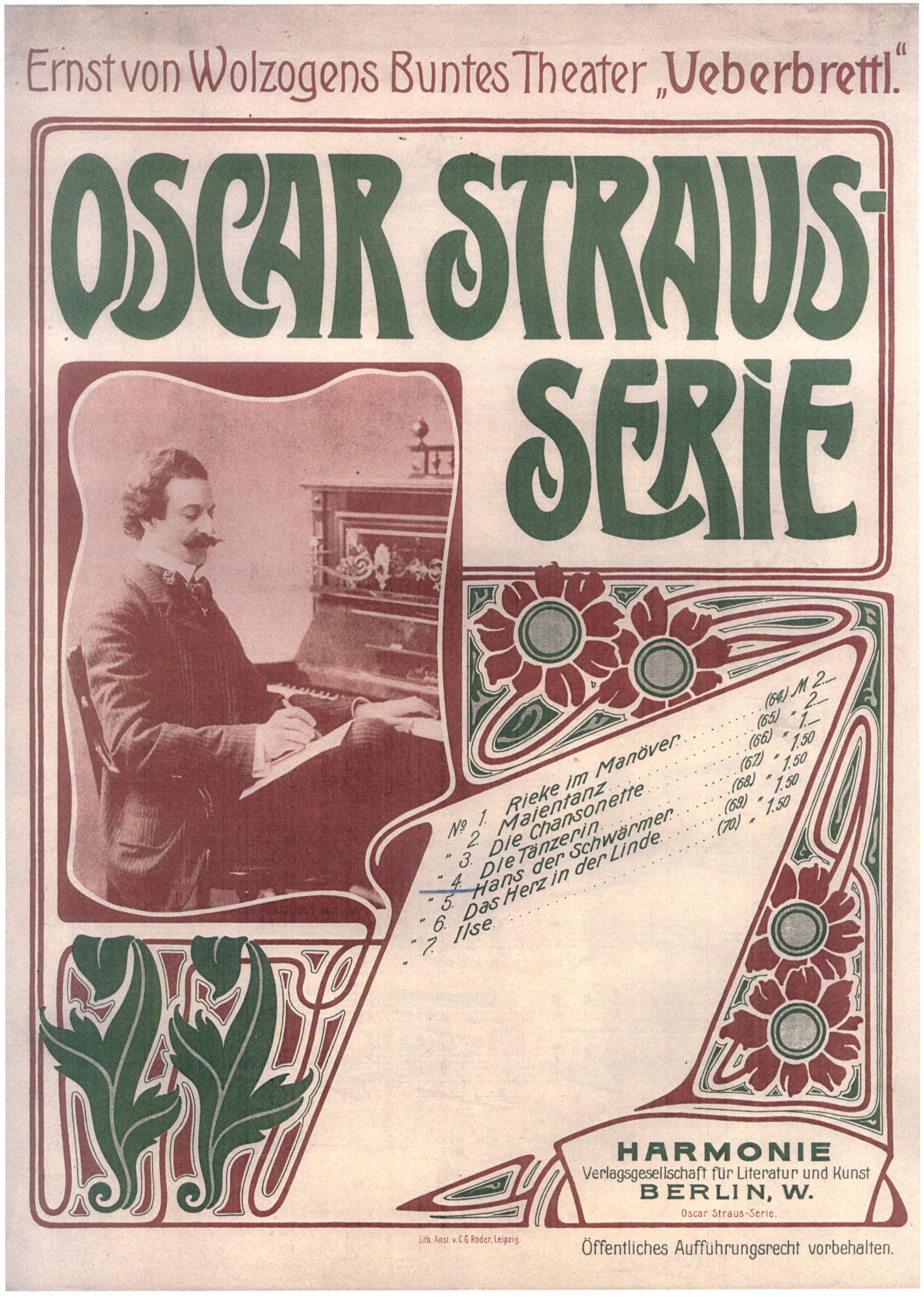 Oscar Straus, cover of a music sheet for Wolzogen's cabarat Überbrettl in Berlin